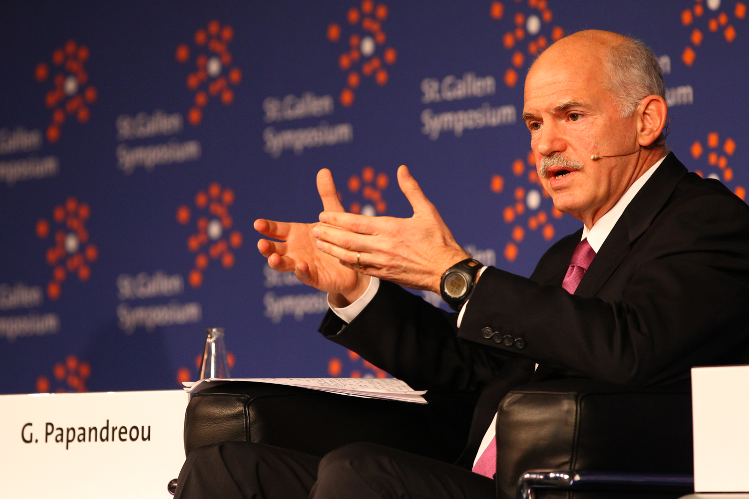 Giorgos Papandreou in May 2012 during a panel debate with Wolfgang Münchau, Trevor Manuel and Richard Sulik at the 42. St. Gallen Symposium at the University of St. Gallen.